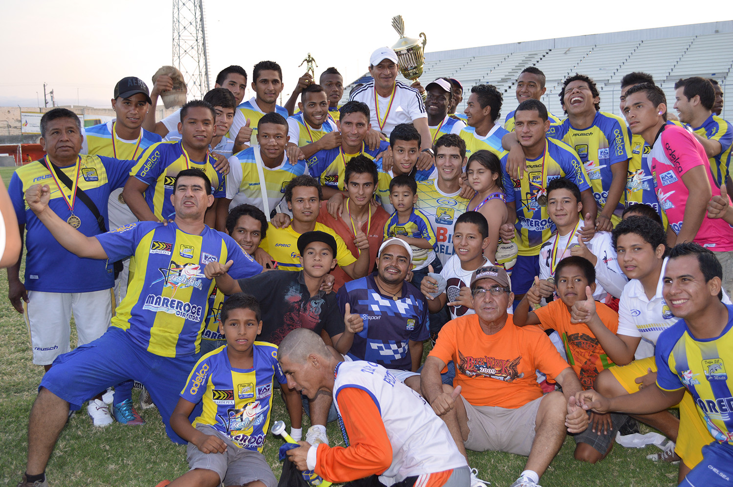 Delfín Sporting Club Campeón de la Segunda Categoría 2013